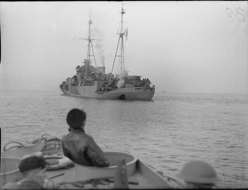 The Royal Navy during the Second World War HMS POZARICA, an anti-aircraft ship, off Algiers. This was taken during operations to simultaneously land troops in North Africa.